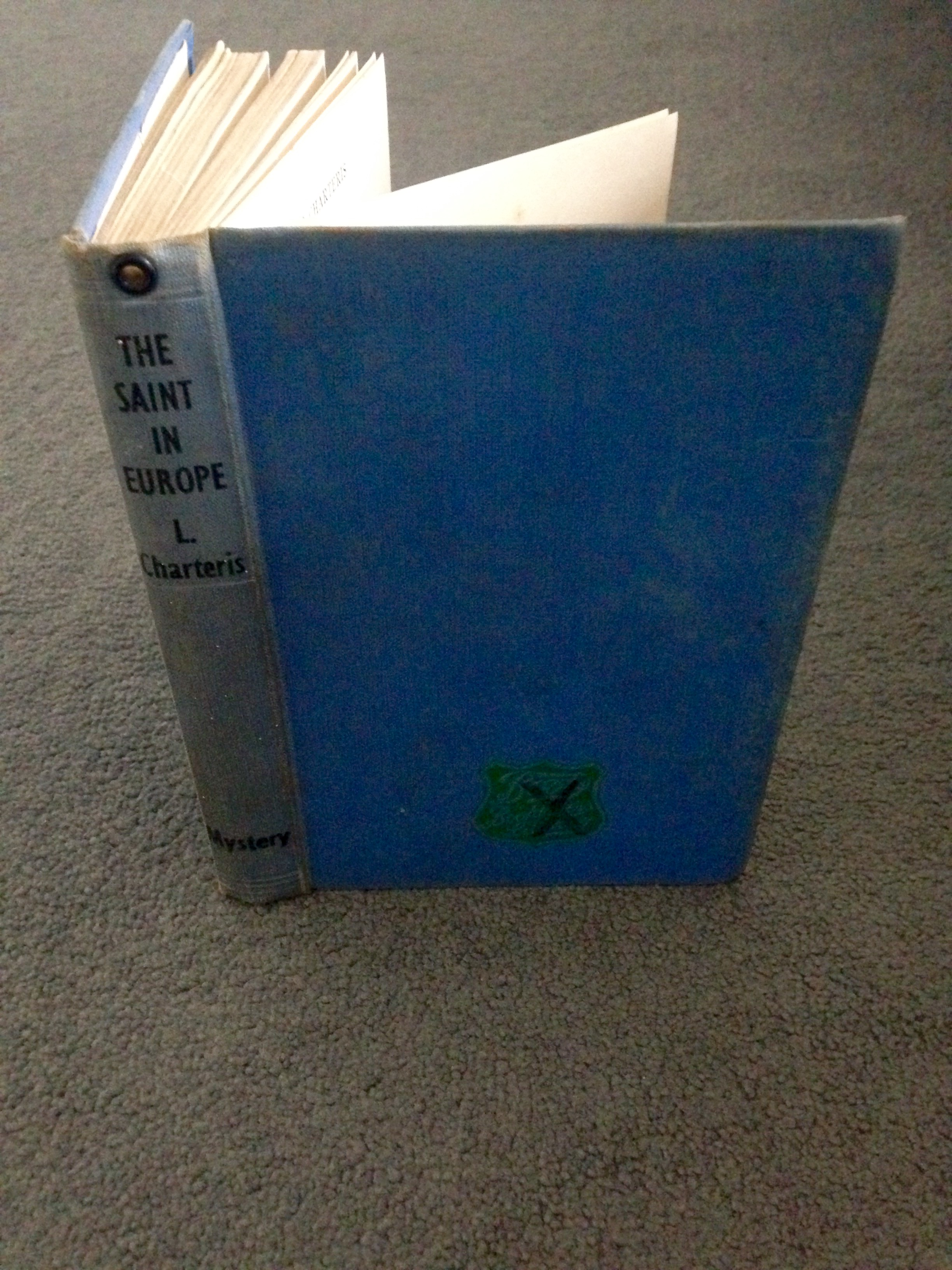 1954 edition of The Saint in Europe by Leslie Charteris, bound for Boots Booklovers Library